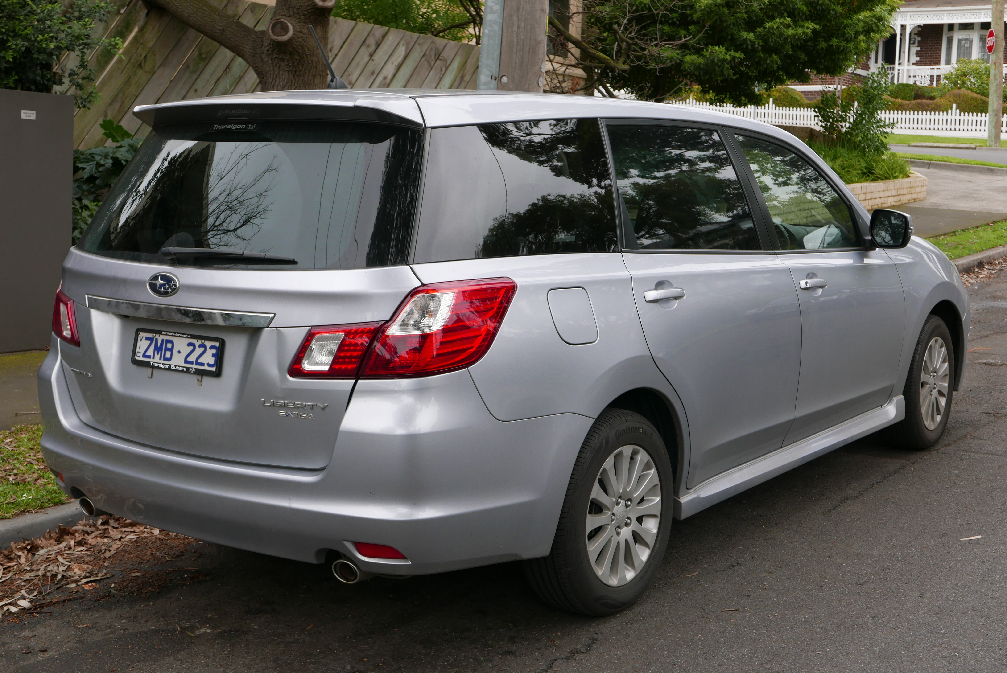 2012 Subaru Liberty Exiga (YA9 MY13) wagon. Photographed in Hawthorn, Victoria, Australia. Vehicle registration enquiry resultsJurisdictionVictoriaRegistrationZMB223Chassis codeJF1YA9K92DG006134Engine codeE542946Compliance date2012-08Year of manufacture2012